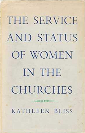 The Service and Status of Women in the Churches